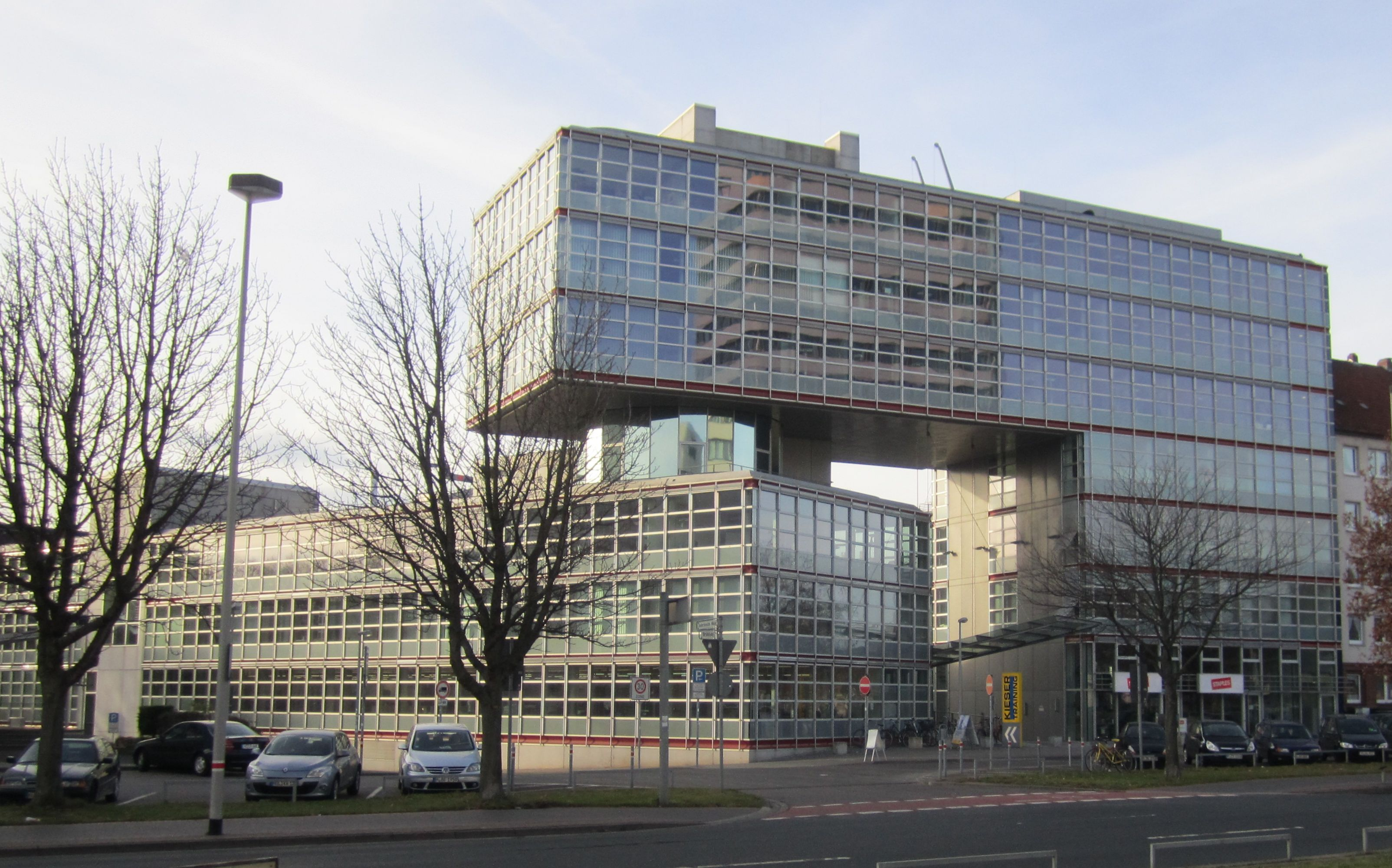 Building in Brühlstraße 11-13, Hannover, Germany.